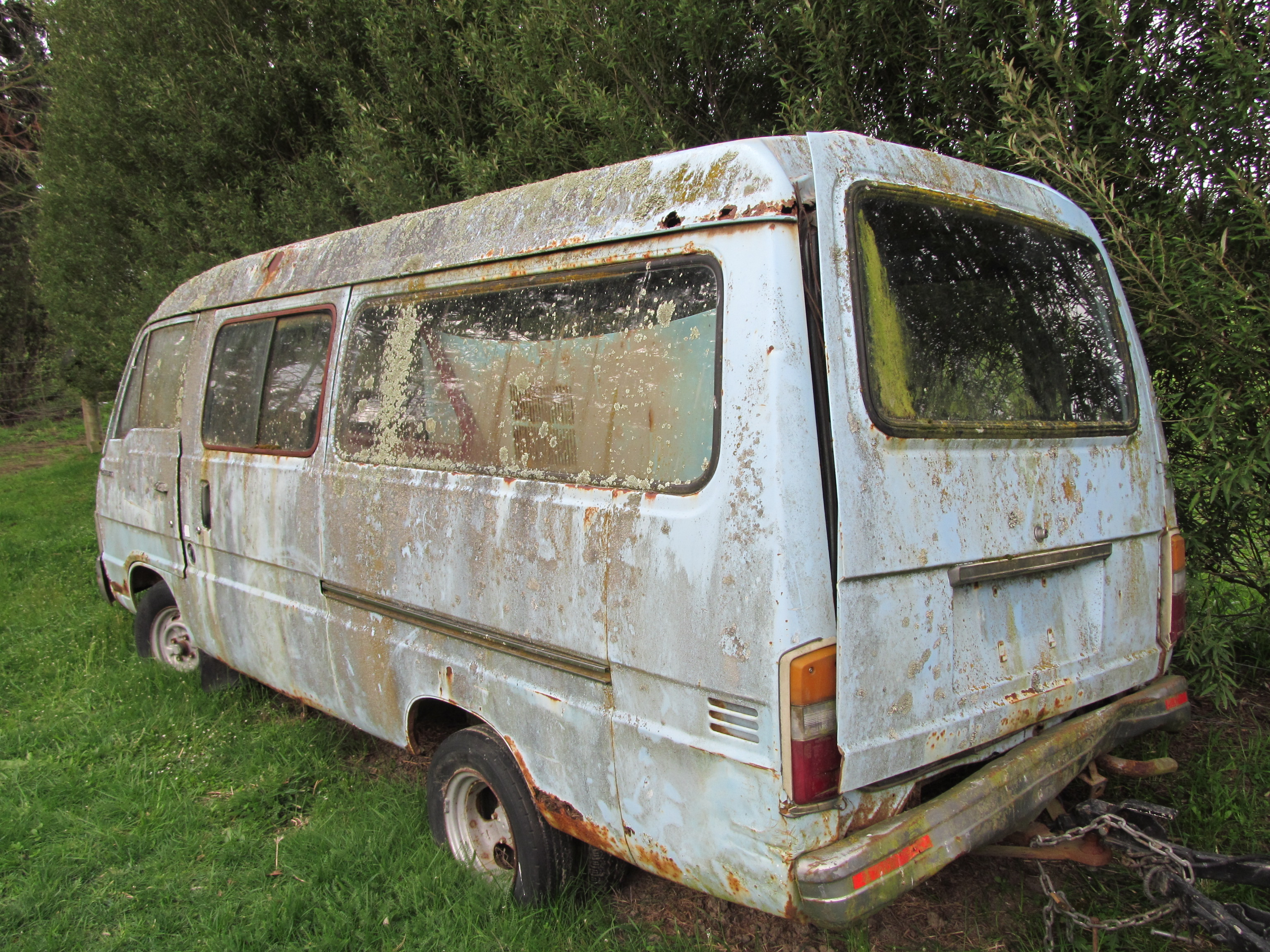 A rear view showing the damage to the bumper and tailgate that likely put this van off the road. It is still attached to a trailer but I doubt it has turned a wheel in years. Speaking of wheels, note the dual rear sets.